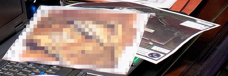 Obscured document on the keyboard of a laptop in the Situation Room